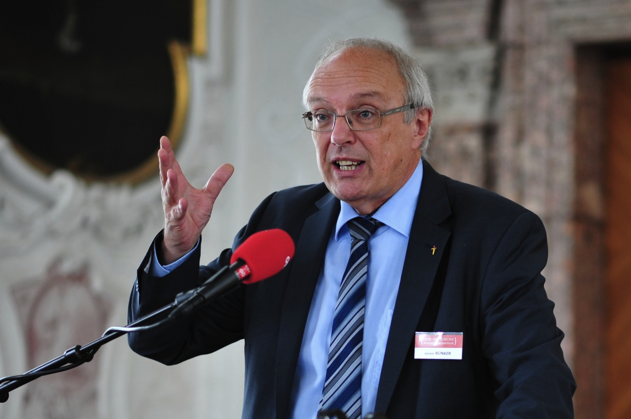 Bishop Michael Bünker.